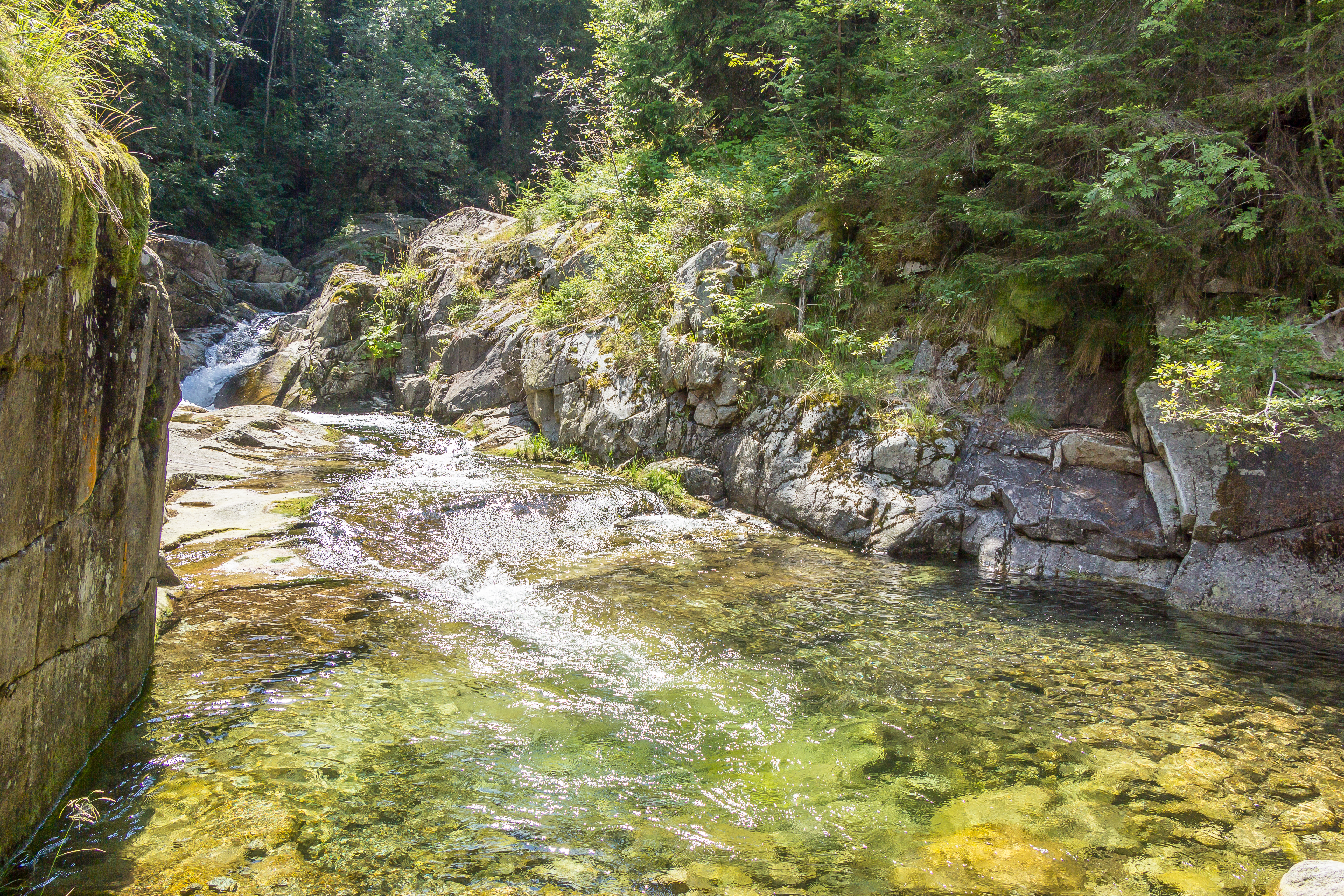 Lolaia River. Retezat National Park, Romania